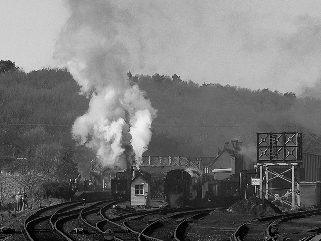 Weybourne Station and Yard Recalling the grime and activity of the Midland and Great Northern Line at the 50th Anniversary of its closure Gala.